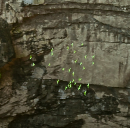 A flock of conures in the Cave of Swallows, La Huasteca, Mexico.